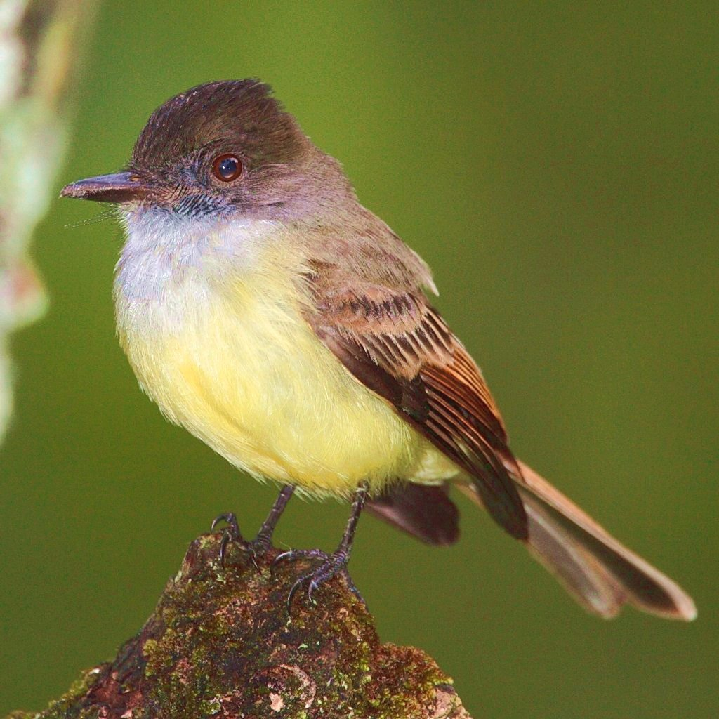 Dusky-capped Flycatcher (Myiarchus tuberculifer) -- Finca Hartmann, Chiriqui, Panama